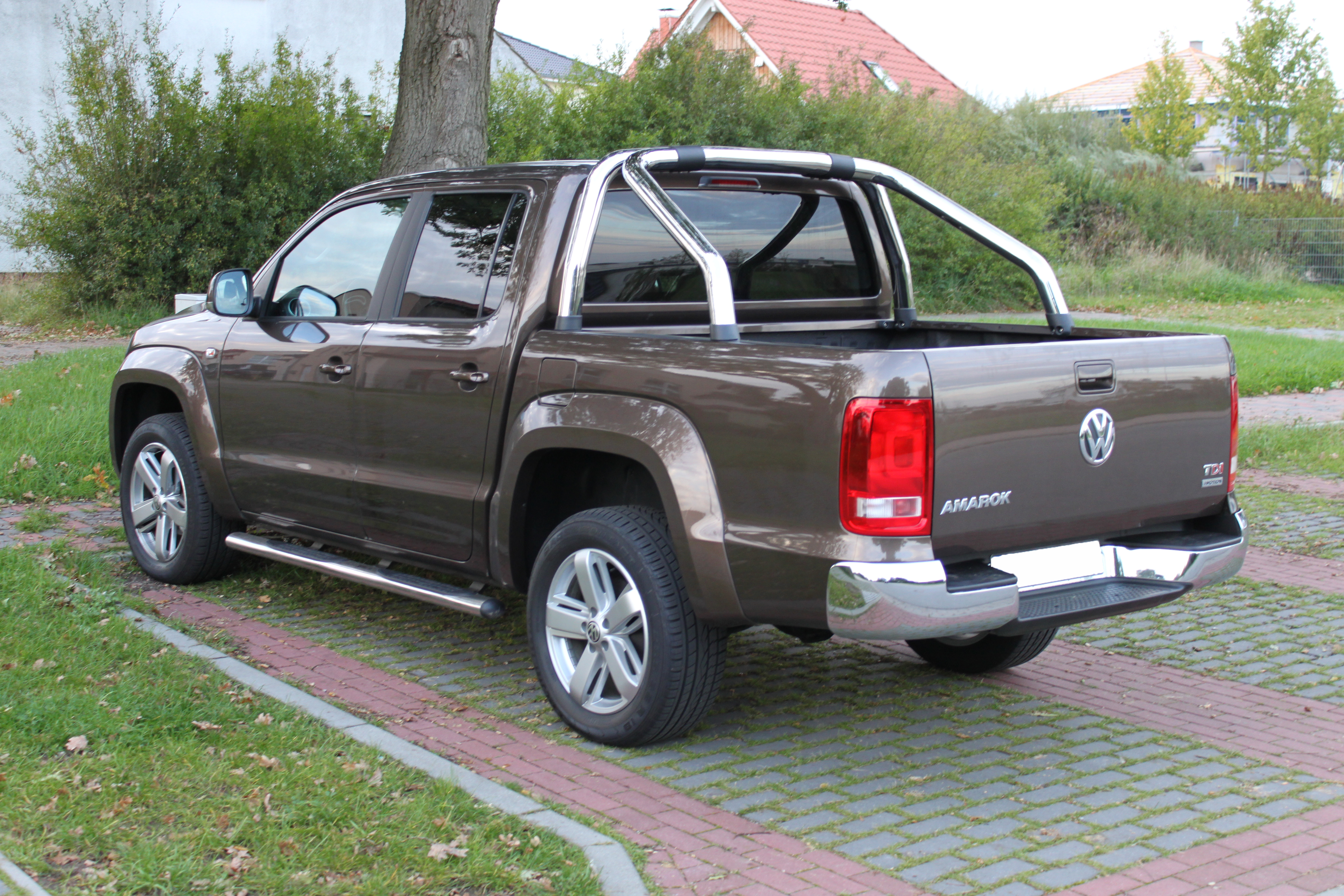 VW Amarok